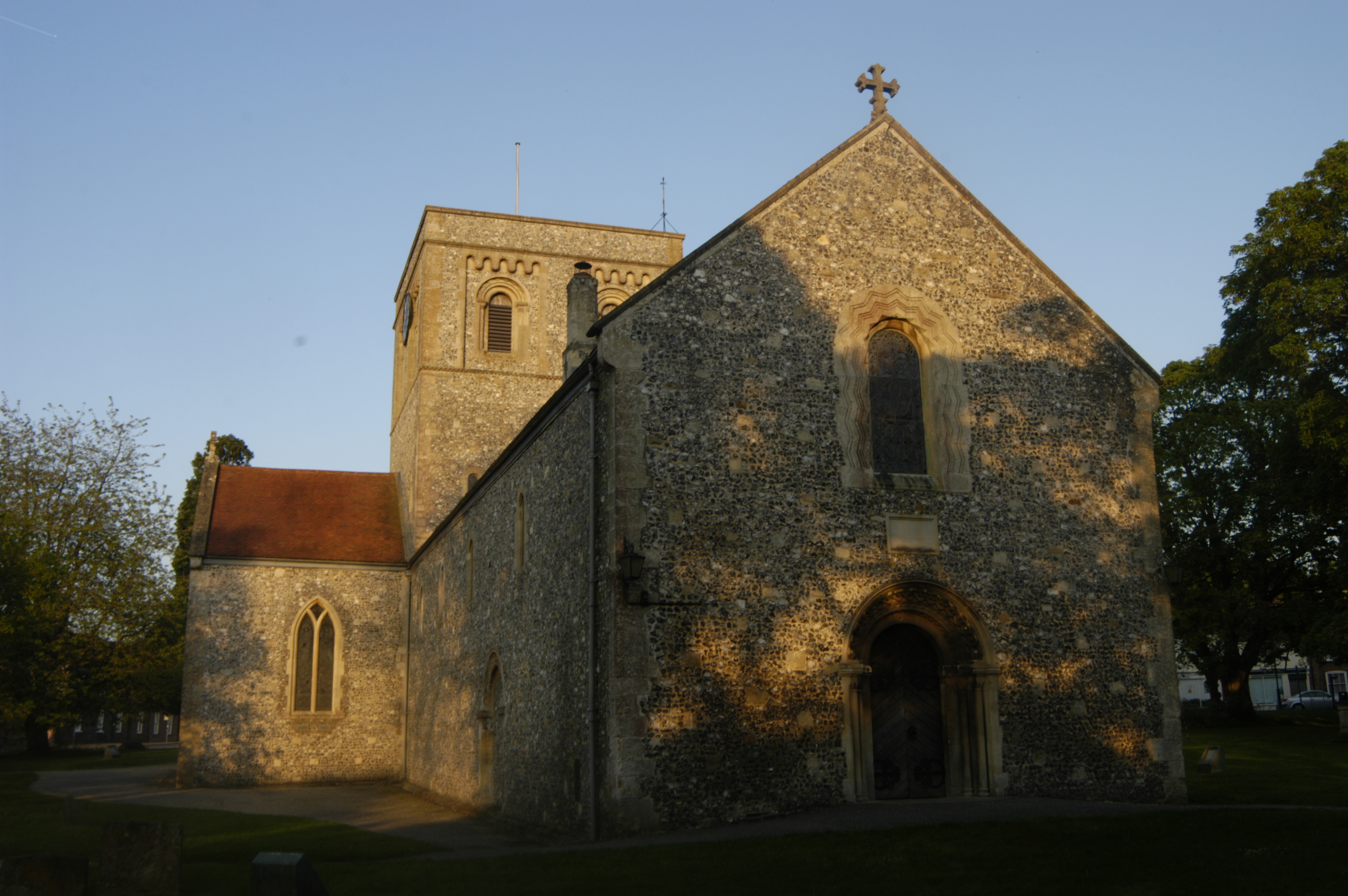 of the Church of St. Mary, Kingsclere, Hampshire, UK, from the west, in evening sun, May 2014.